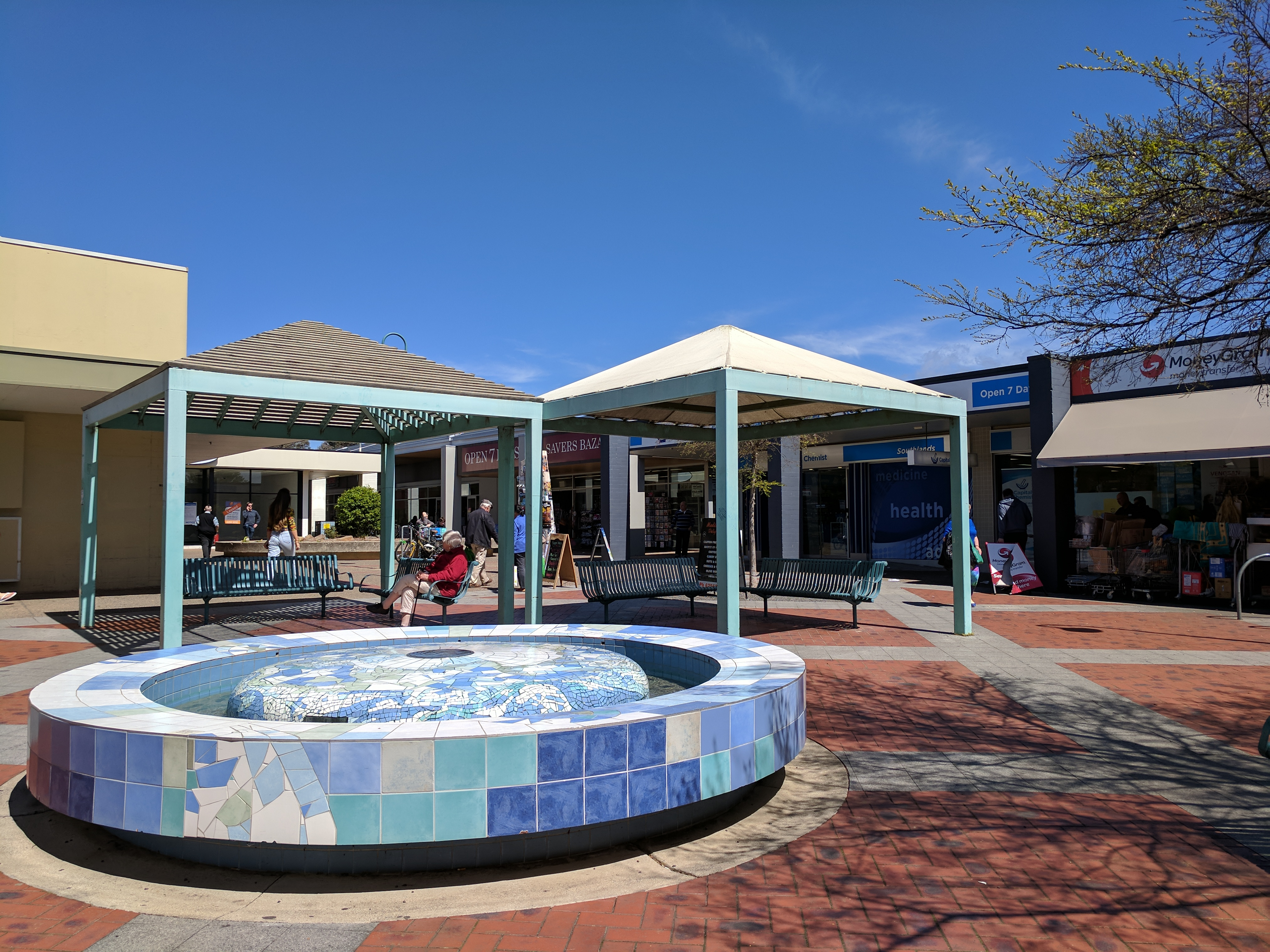 The small plaza in the Mawson group centre shopping area